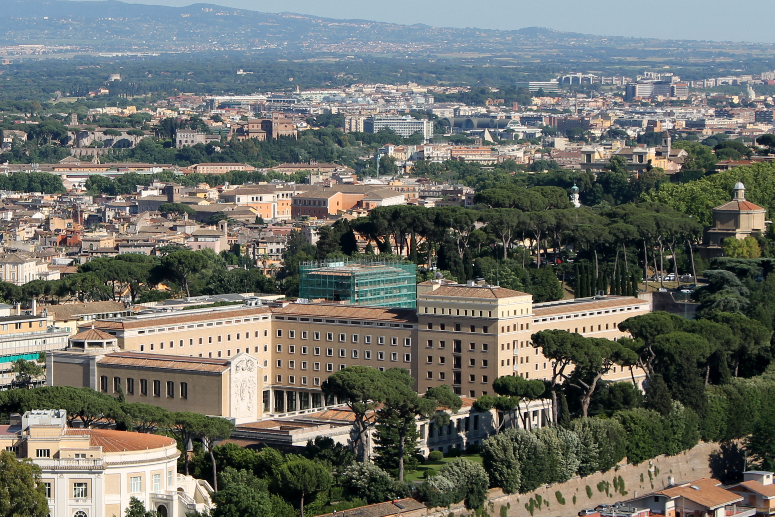 A view of the Pontifical North American College's campus on the Janiculum, taken in June 2014.